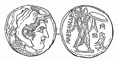 Coin of Alexander II of Epirus. The obverse bears a youthful head covered with the skin of an elephant's head. The reverse represents Pallas Athena holding a spear in one hand and a shield in the other, and before her stands an eagle on a thunderbolt